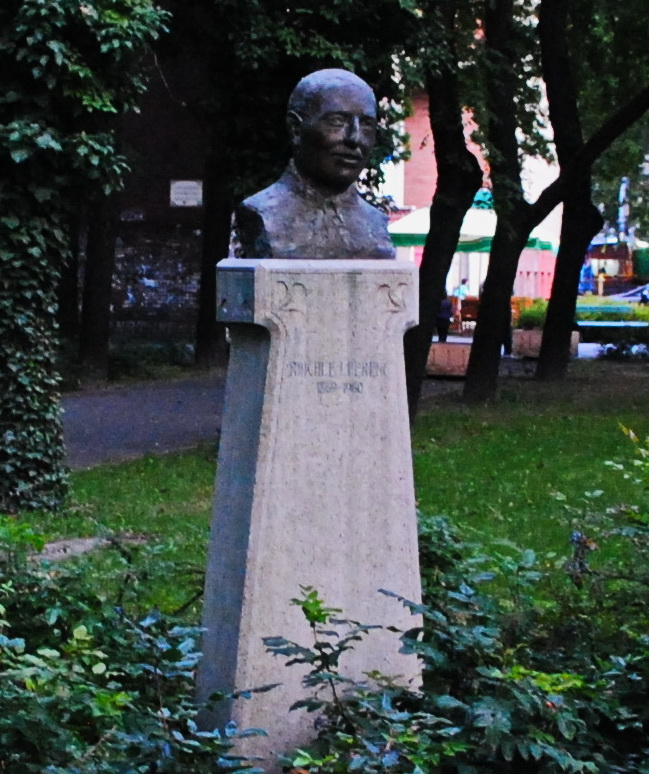 Near one of the most famous Raichle's buildings. Raichle's palace, there is a bust of this famous architect.